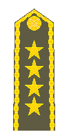 Rank insignia of the Czech Republic Army, here shoulder board of the Army general – all services (OF-9, since 2011).